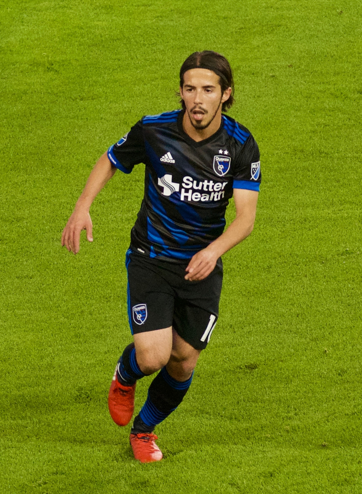 Jahmir Hyka playing for San Jose Earthquakes at Avaya Stadium on 8 April 2017.